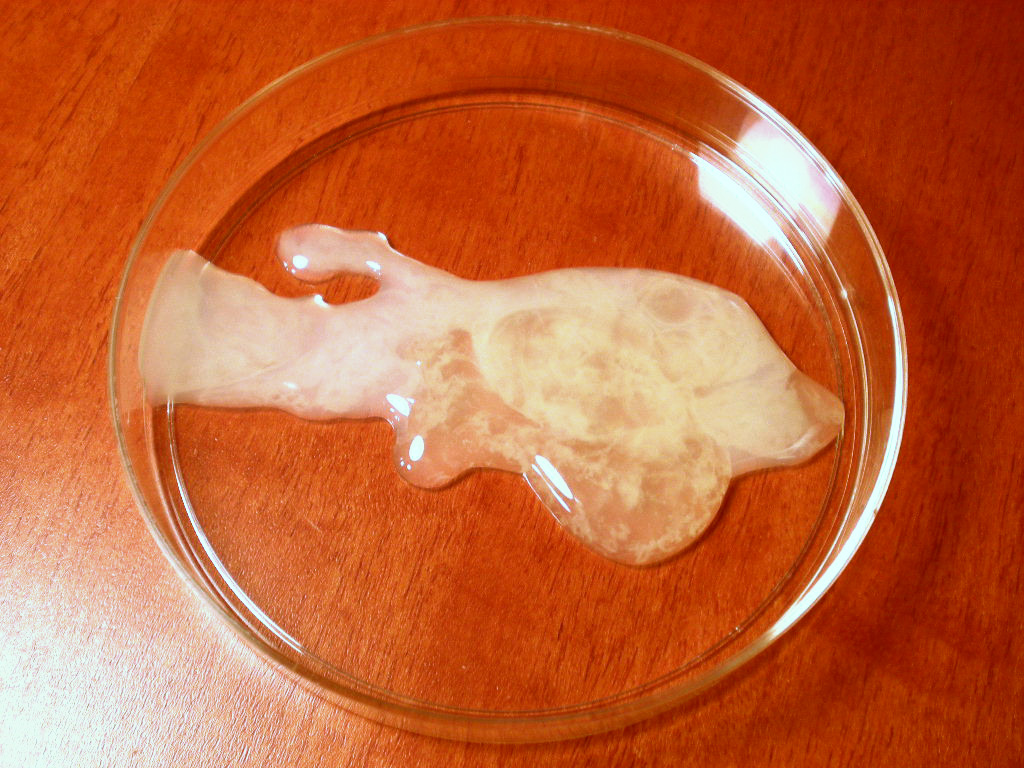 Human semen in a petri dish